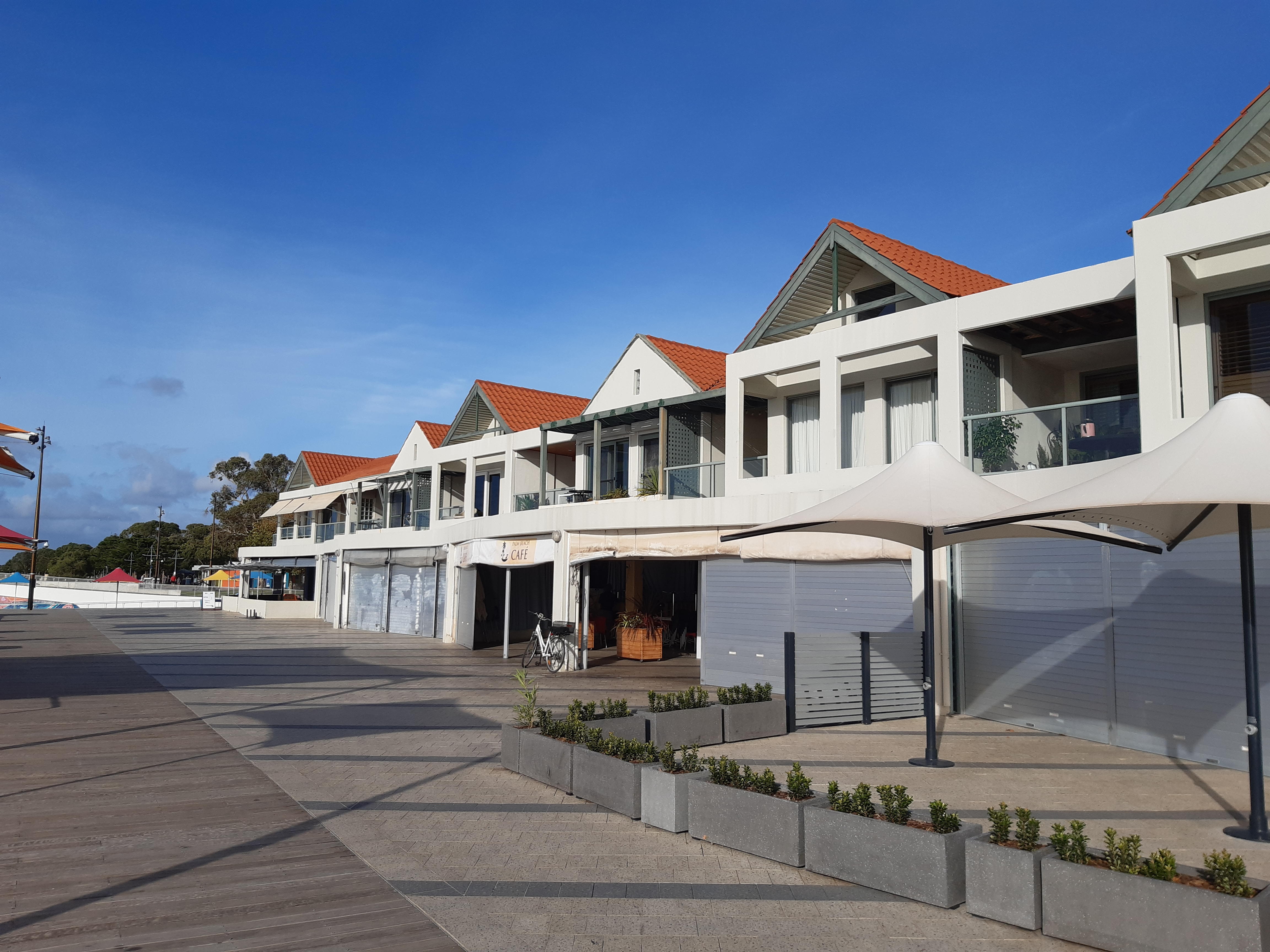 Rockingham Foreshore restaurants closed because of the effects of the COVID-19 pandemic, following government regulations in Western Australia. The restaurants would usually be quite busy on a sunny Saturday afternoon. Now all but two were closed, and those two were only open for take aways.